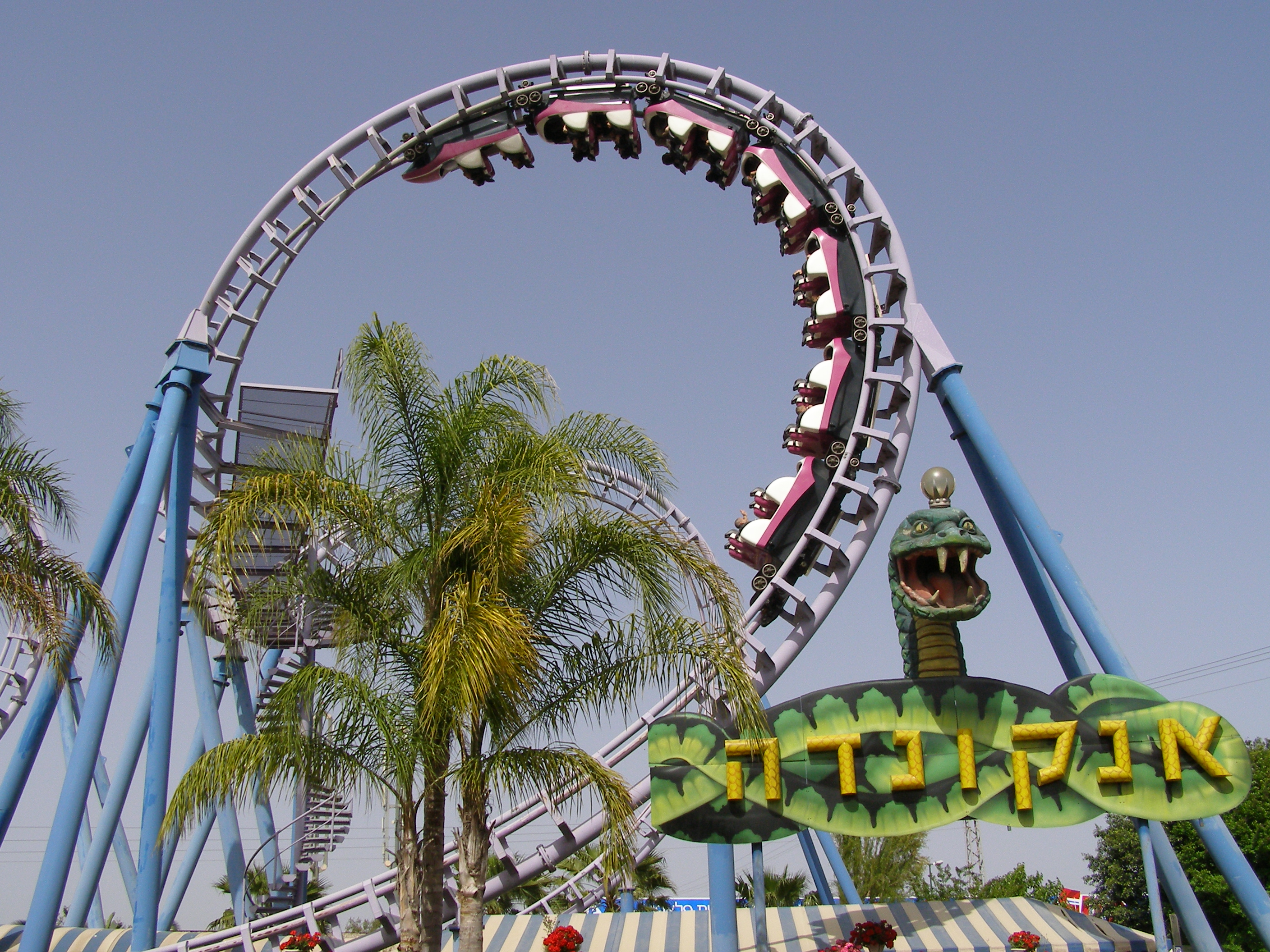 Anaconda roller coaster at "Lunapark Tel Aviv"